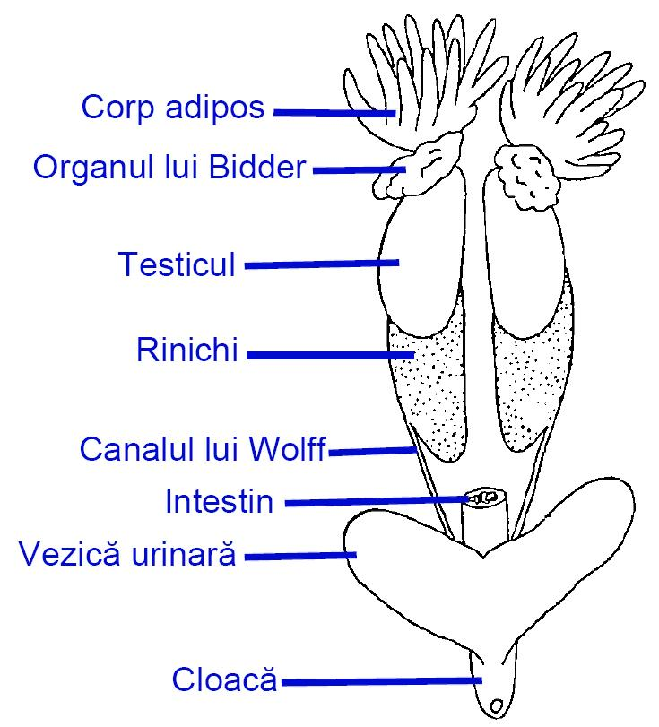 Bidder's organ